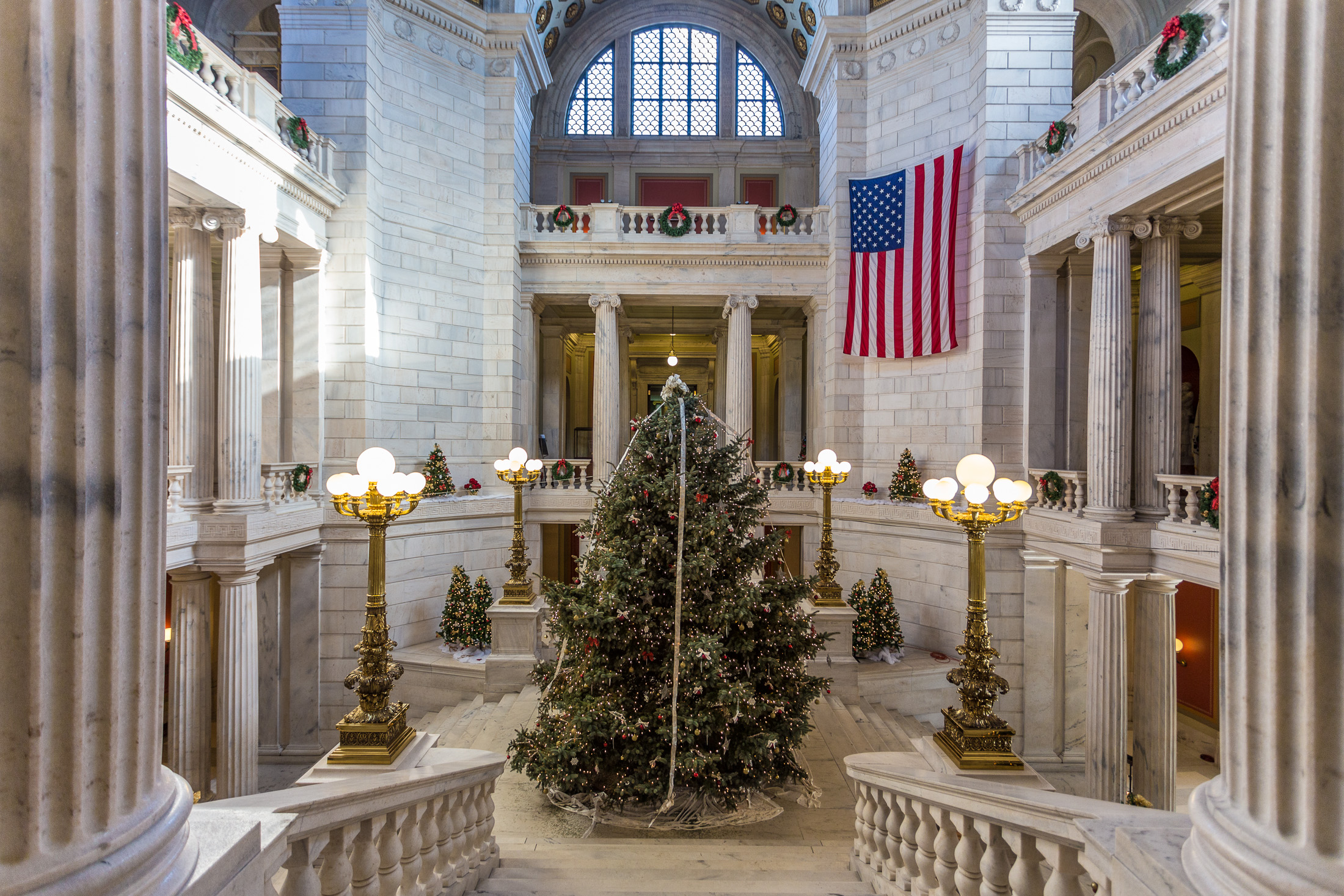 Christmas Tree at RI State House, 2013. Providence, Rhode Island.